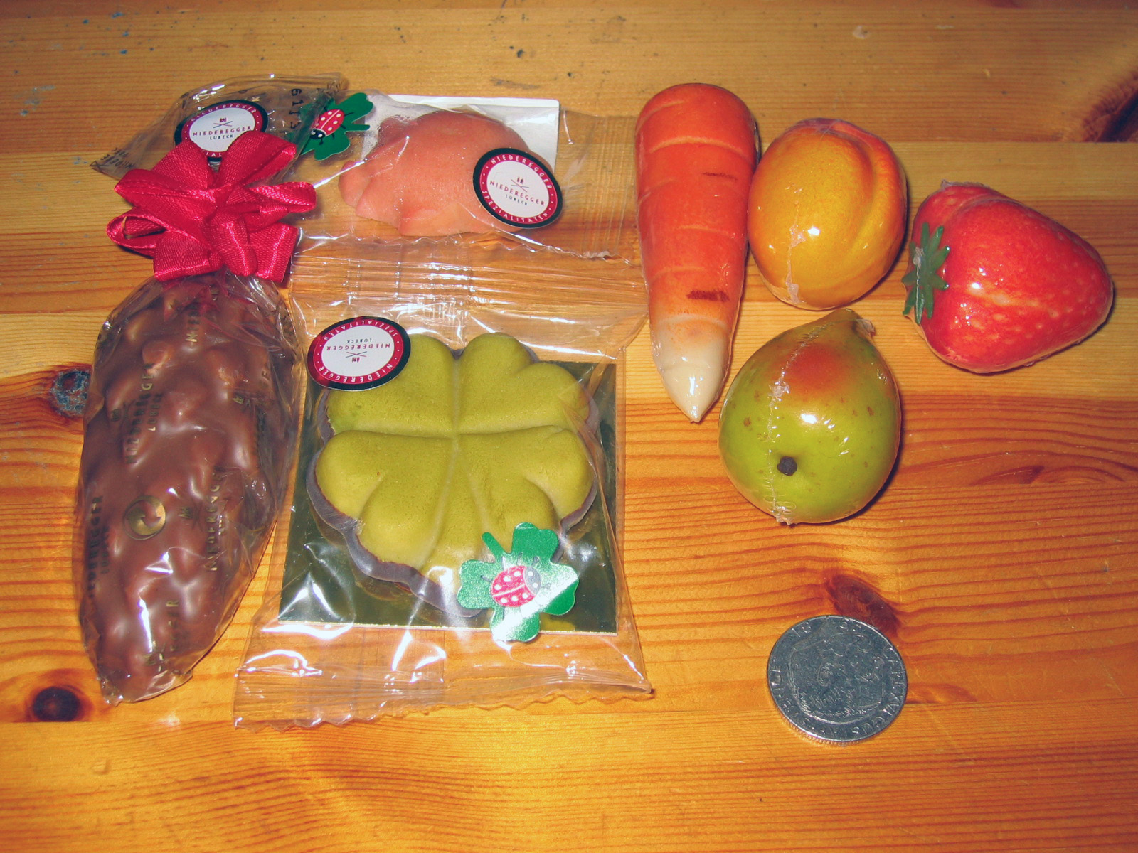 A sample of a few different Niederegger marzipan sweets in various shapes. A Swedish krona is used to get a hint of the products' sizes.